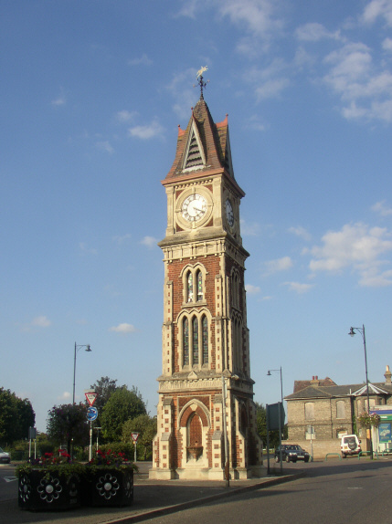 Jubilee Clocktower, Newmarket, Suffolk. The clocktower was erected to celebrate the Golden Jubilee of Queen Victoria in 1887. It is at the top (NE) end of the High Street